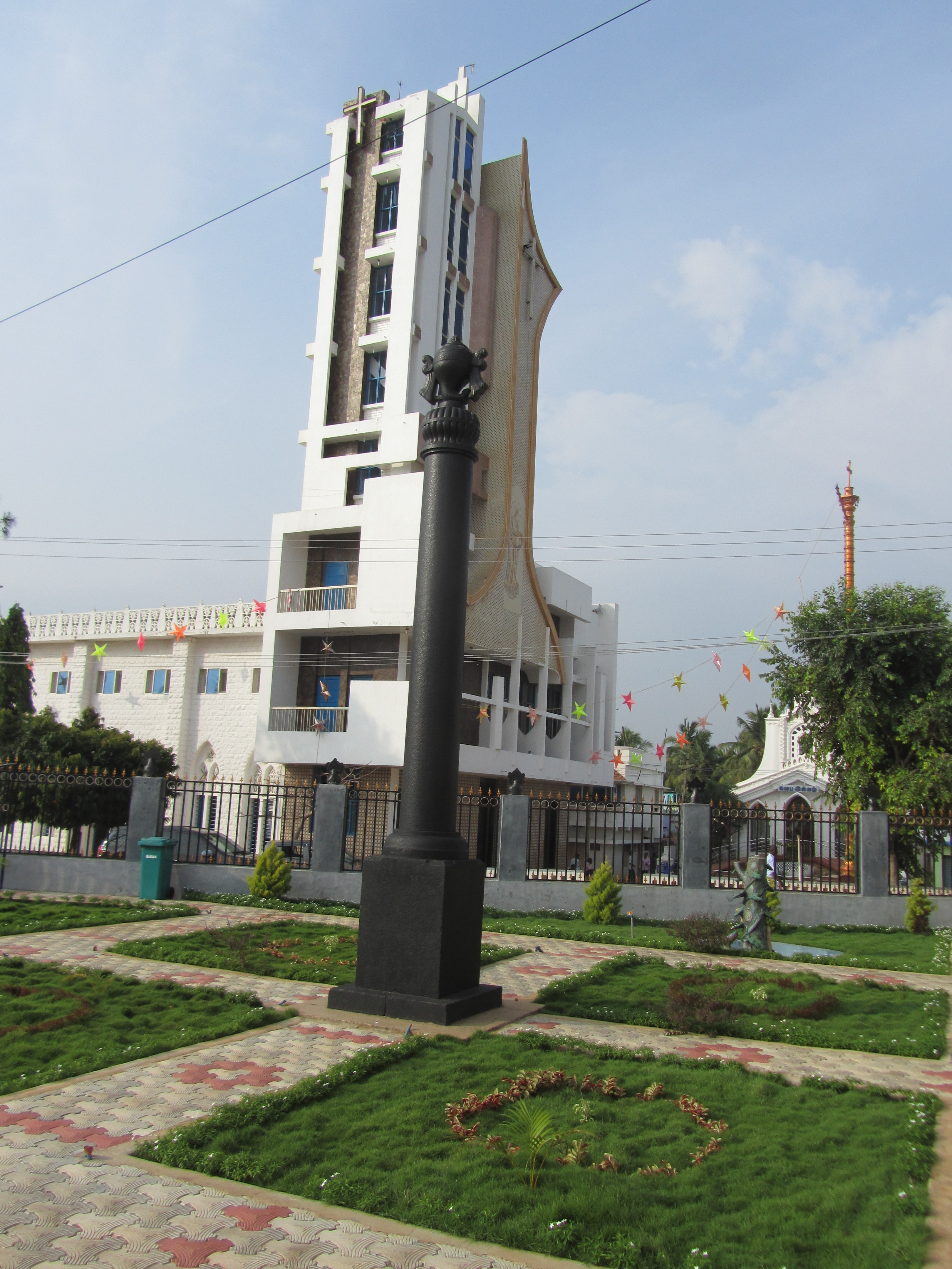 View of the pillar at Colachel with the town in the background